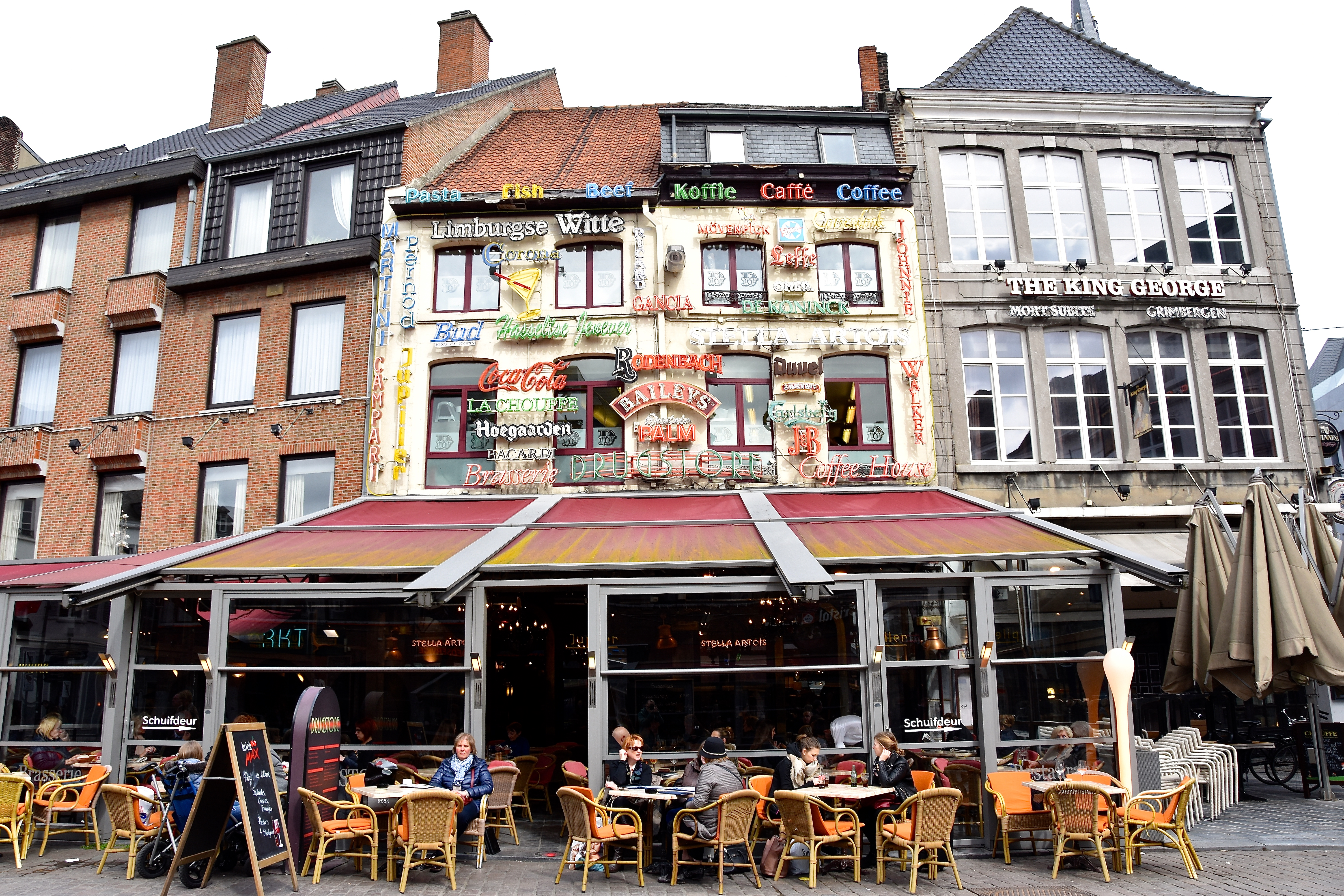 Over reclame-uitingen gesproken.